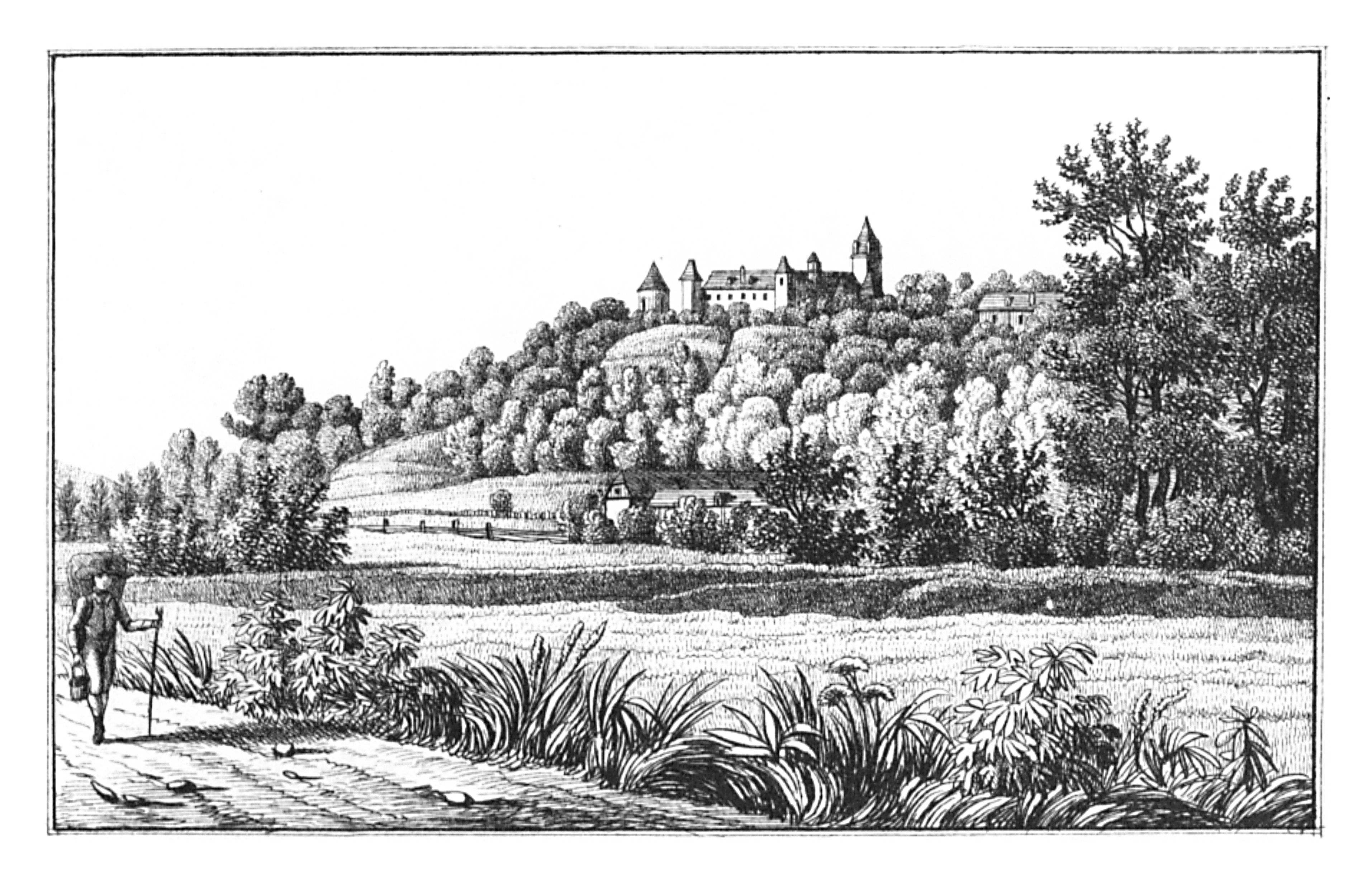 J. F. Kaiser - lithographirte Ansichten der Steyermärkischen Städte, Märkte und Schlösser, Graz 1824-1833 Joseph Franz Kaiser (1786–1859) Alternative names J. F. KaiserDescriptionAustrian printer and editorDate of birth/death 11 March 1786 19 September 1859Location of birth/death Graz (Styria) GrazAuthority control : Q1499963 VIAF: 30629353 ISNI: 0000 0000 3083 0153 LCCN: n87141671 GND: 129880159 NLP: A24960305 WorldCat creator QS:P170,Q1499963 Scanprojekt Community Projektbudget 2012 This scan or this PDF-file was created within the GLAM-project Bookscanning, supported by Wikimedia Germany and Wikimedia Austria as a part of the community-project to capture books, documents and pictures which are not eligible to copyright or for which the copyright has expired. This document describes or depicts an object which is located in Austria today. Send requests for uncompressed scans to Hubertl. This work is in the public domain in its country of origin and other countries and areas where the copyright term is the author's life plus 100 years or fewer. You must also include a United States public domain tag to indicate why this work is in the public domain in the United States. This file has been identified as being free of known restrictions under copyright law, including all related and neighboring rights.